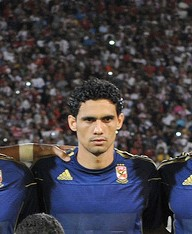 Mohamed Nagieb